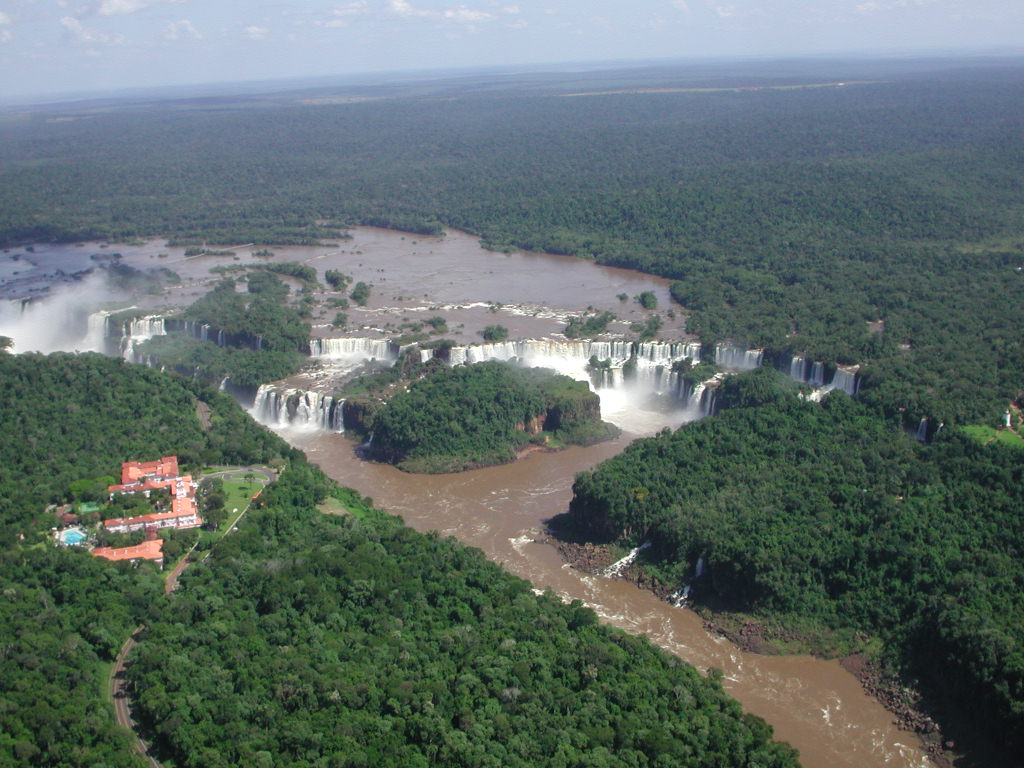 This view of the Iguazu Falls was captured from a helicopter in March of 2003. These falls are located on the Brazilian/Argentinian border in Iguazú National Park. The source of the Iguazu River is in the Santa Catarina province of southeastern Brazil. After flowing west-northwest for several hundred km, the Iguazu abruptly drops 80 m (260 ft), forming these picturesque waterfalls. Less than 50 km (30 miles) downstream, the Iguazu empties into the Paraná River. This photo shows the entire width of the Falls (approximately 3 km or 2 miles wide), the second widest waterfall in the world. Iguazu Falls, in Misiones (Argentina).